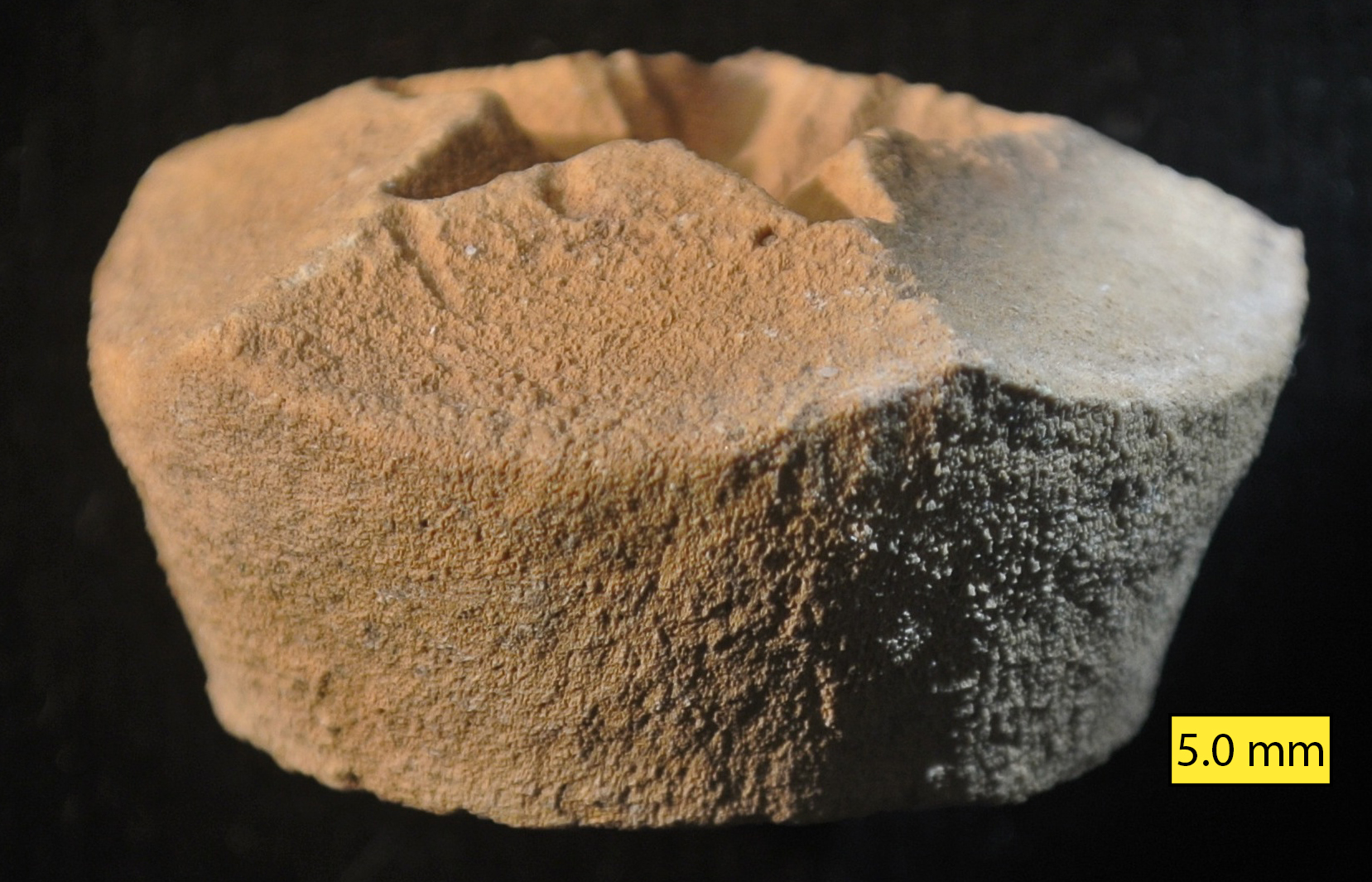 The distinctive proximale of Apiocrinites negevesis; Matmor Formation; Middle Jurassic of southern Israel.